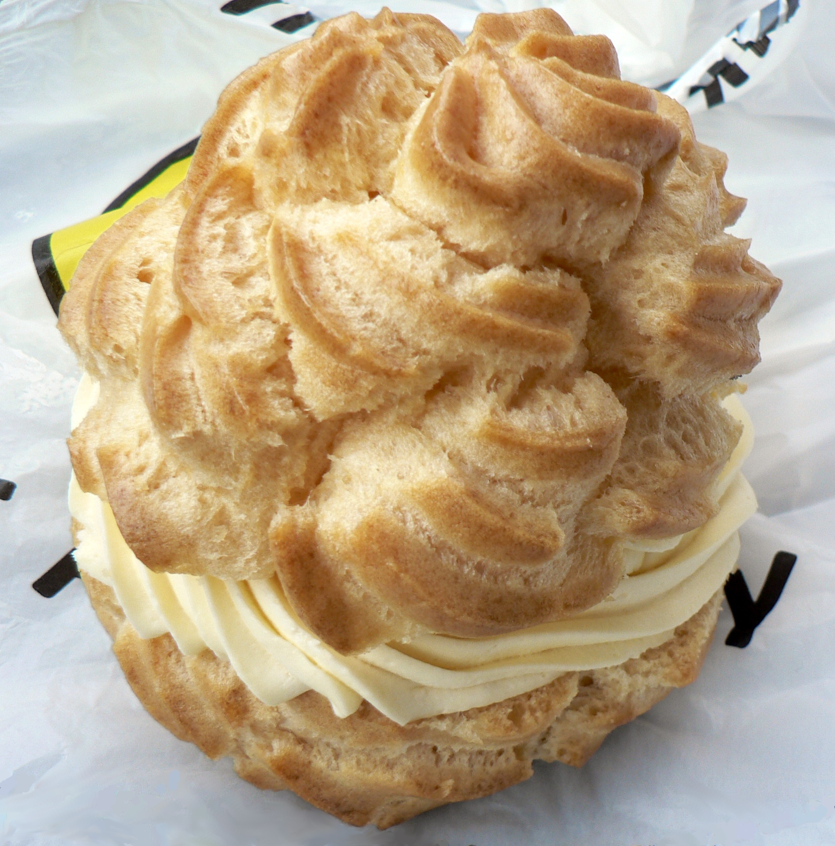 A cream puff.